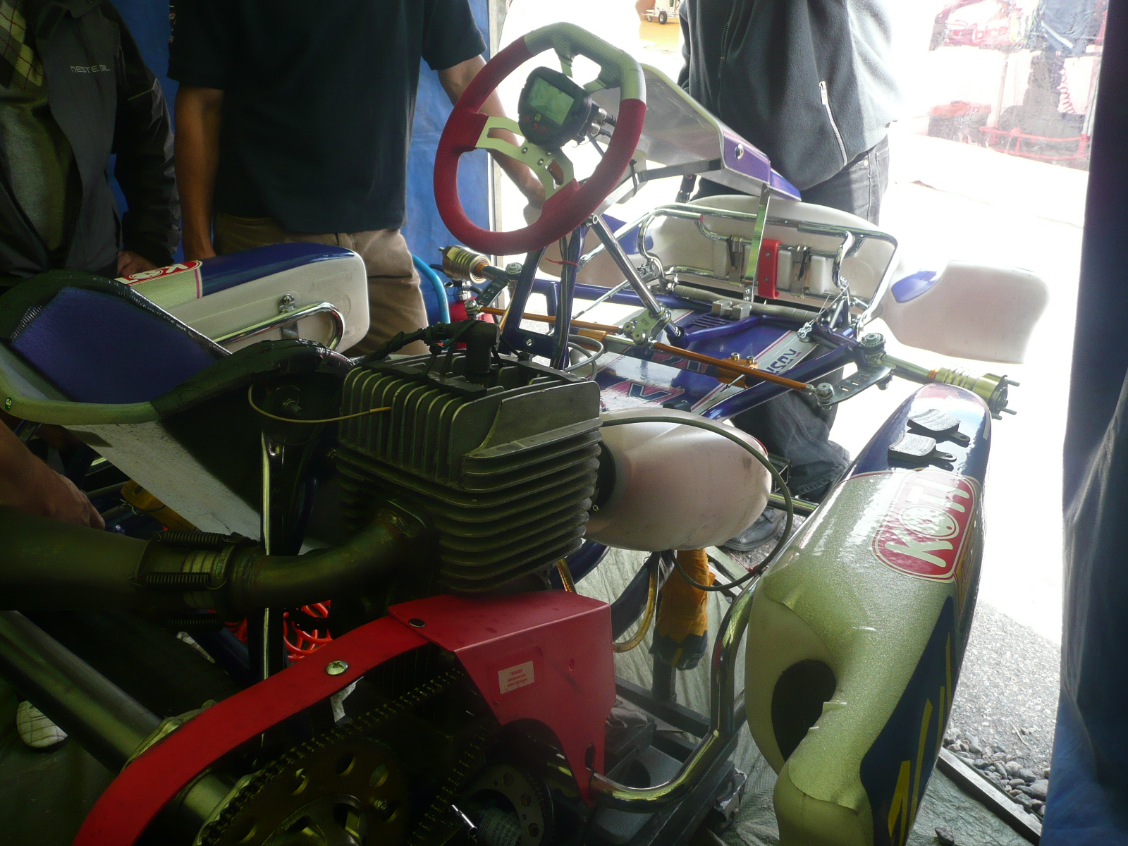 Karting car service Hyvinkää August 2008. Finland´s national cup